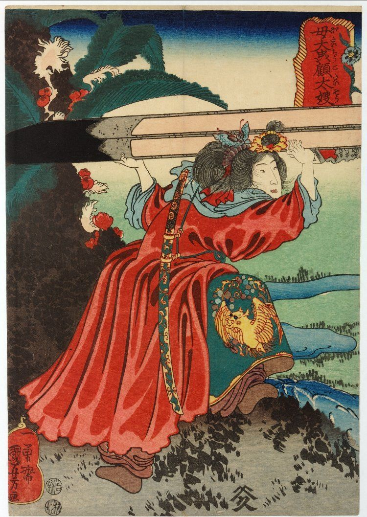 Gu Dasao (顧大嫂) throwing a huge pillar from a ledge.